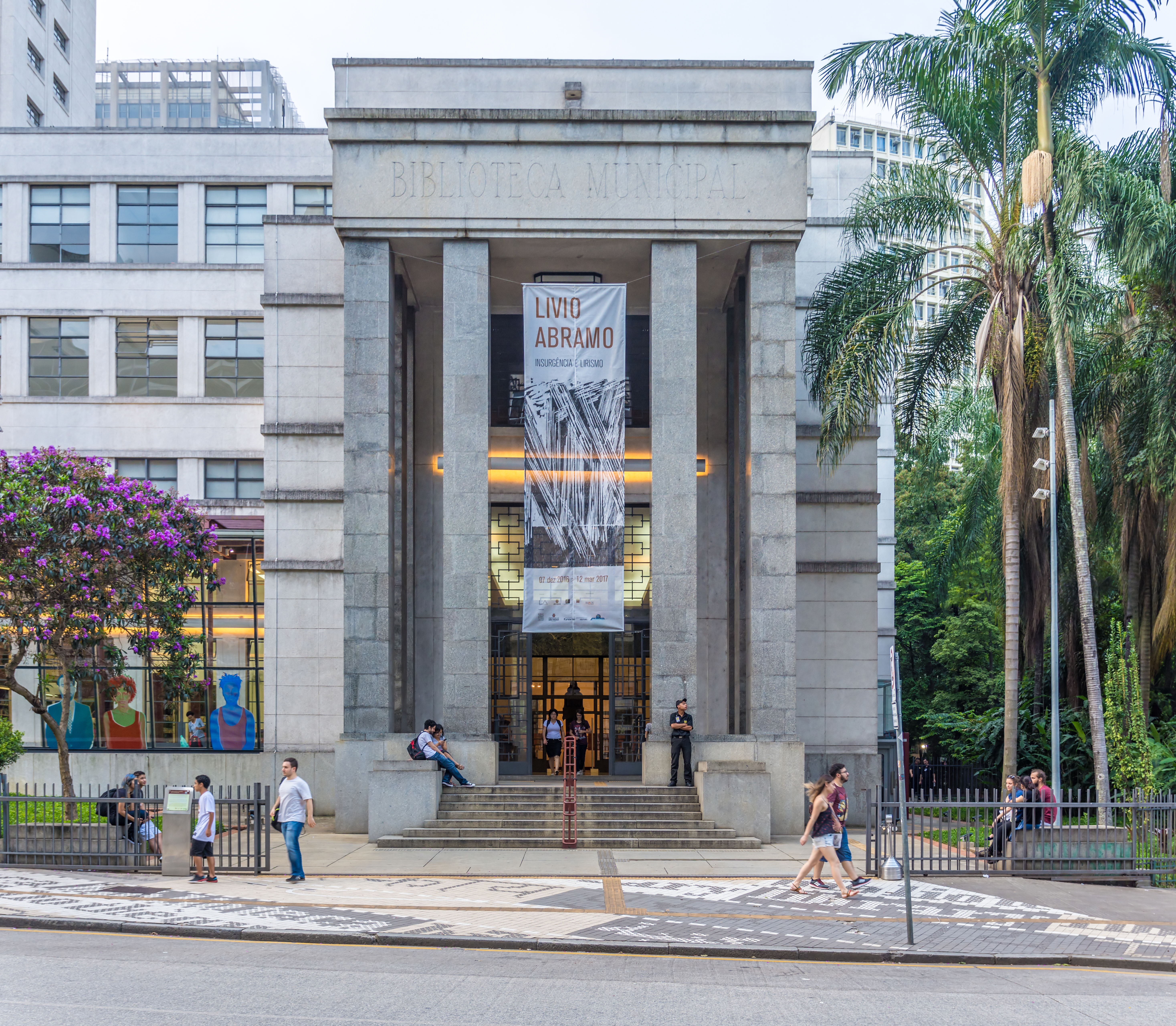 Biblioteca Mario Andrade, São Paulo, Brasil